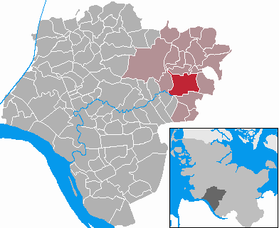 This map shows the area of the Stadt (town) Kellinghusen in the Kreis (district) Steinburg, Schleswig-Holstein, Germany.